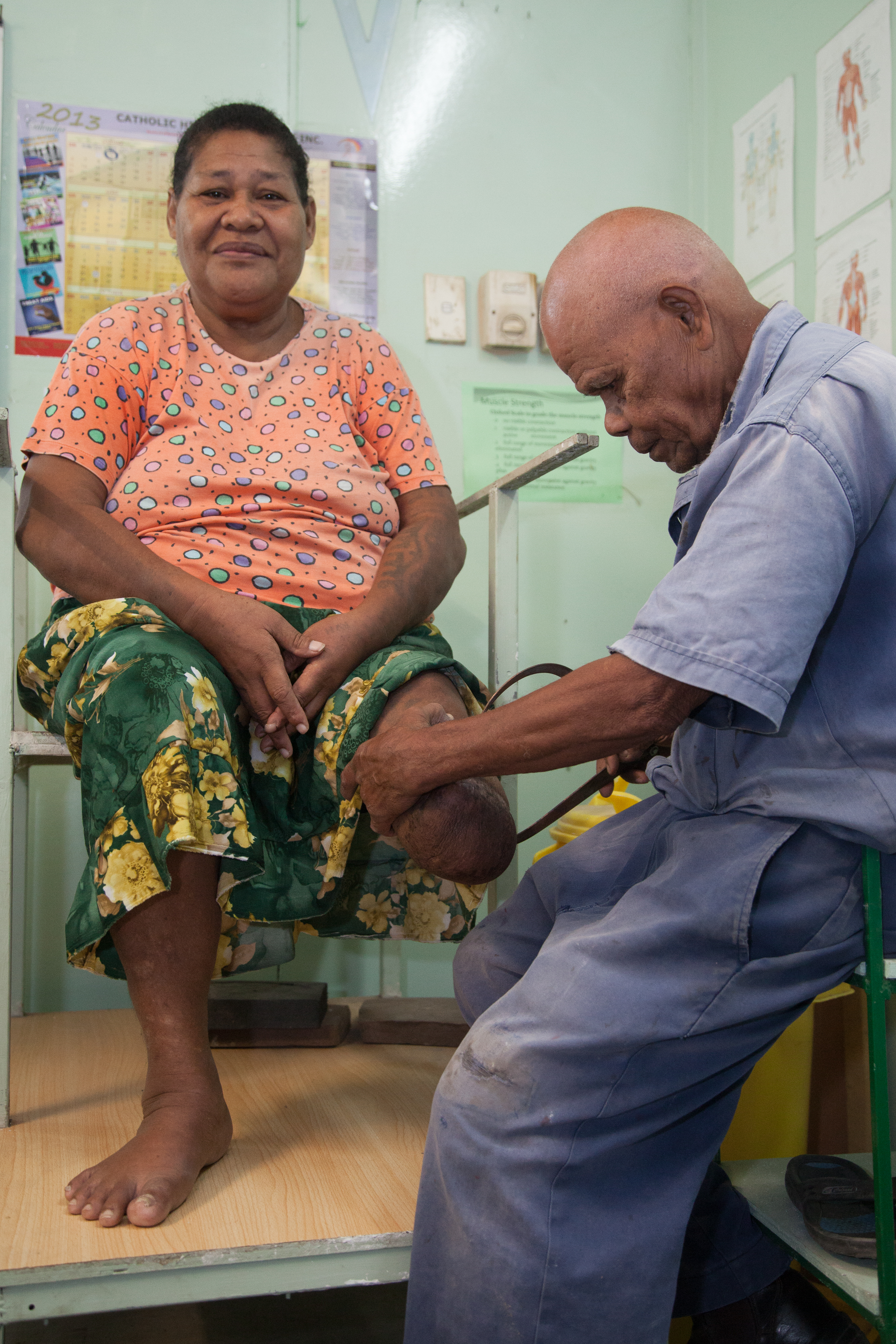 Jospeh Sodiasi (right) fitting a patient Vele who lost her leg to diabetes at the National Orthotic & Prosthetic Services (NOPS), Port Moresby General Hospital, PNG. Photo taken by Ness Kerton for AusAID. (13/2529)